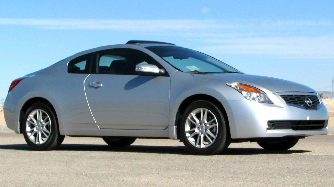 2008 Nissan Altima photographed in USA.